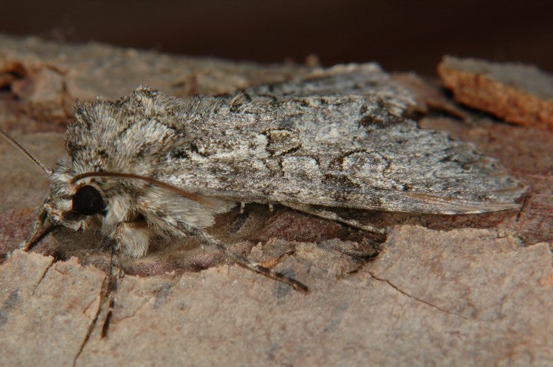 Polia nebulosa. Location: The Netherlands - Nationaal Park De Meinweg